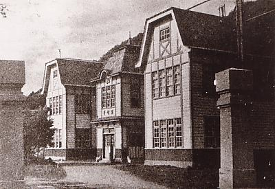 Honto Town Office